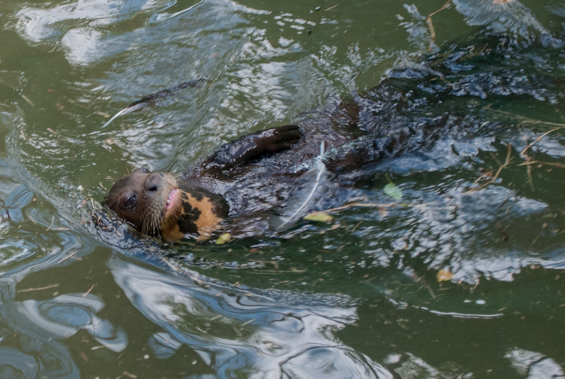 Nutria from Venezuela